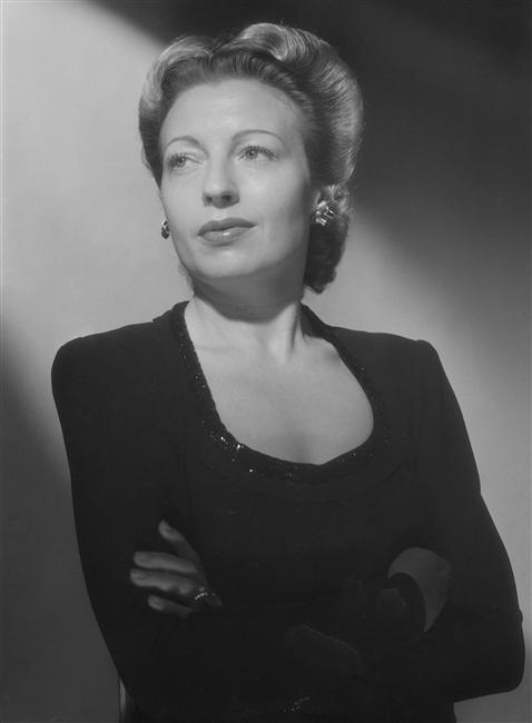 Studio photo